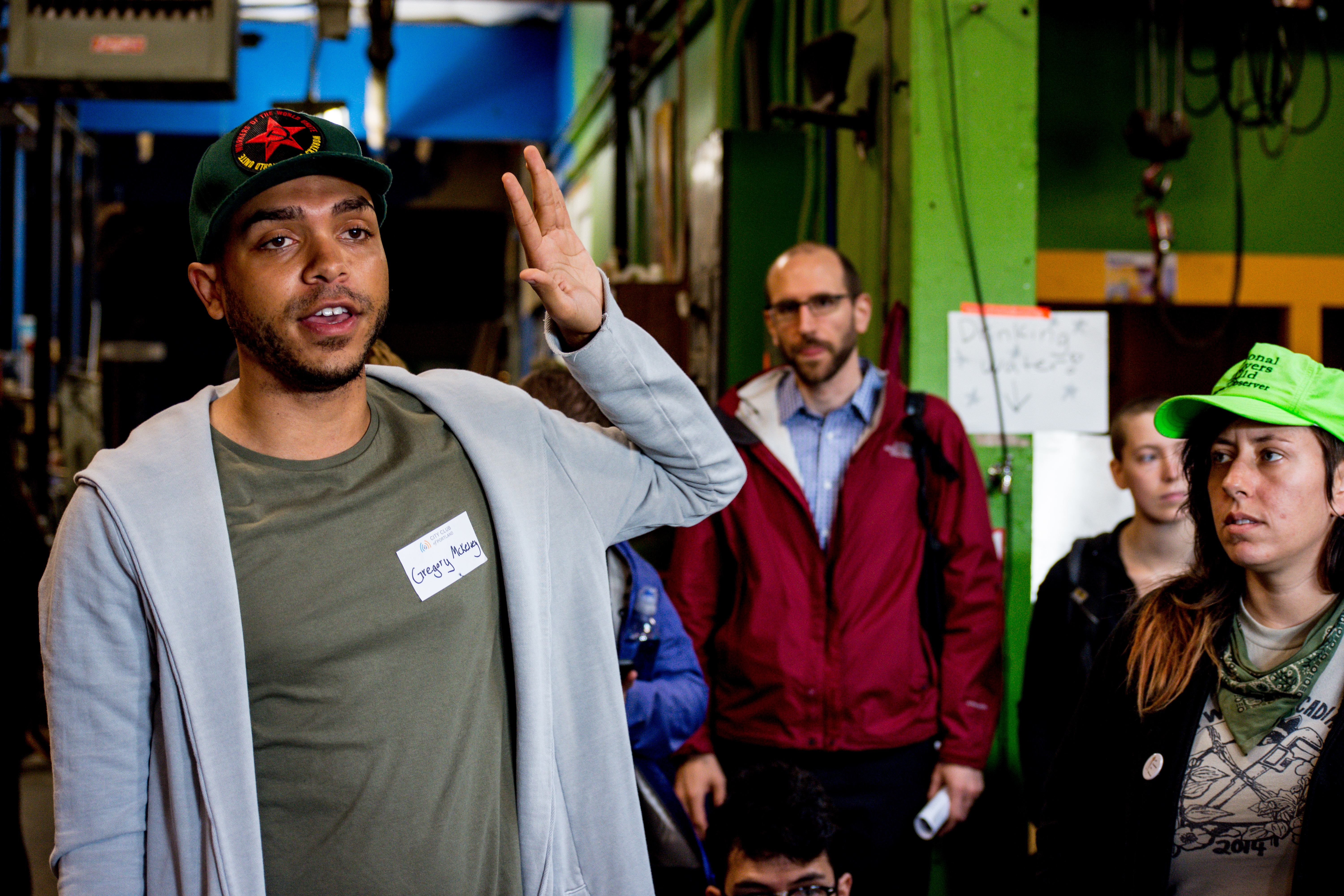 Photo of Gregory McKelvey addressing activists